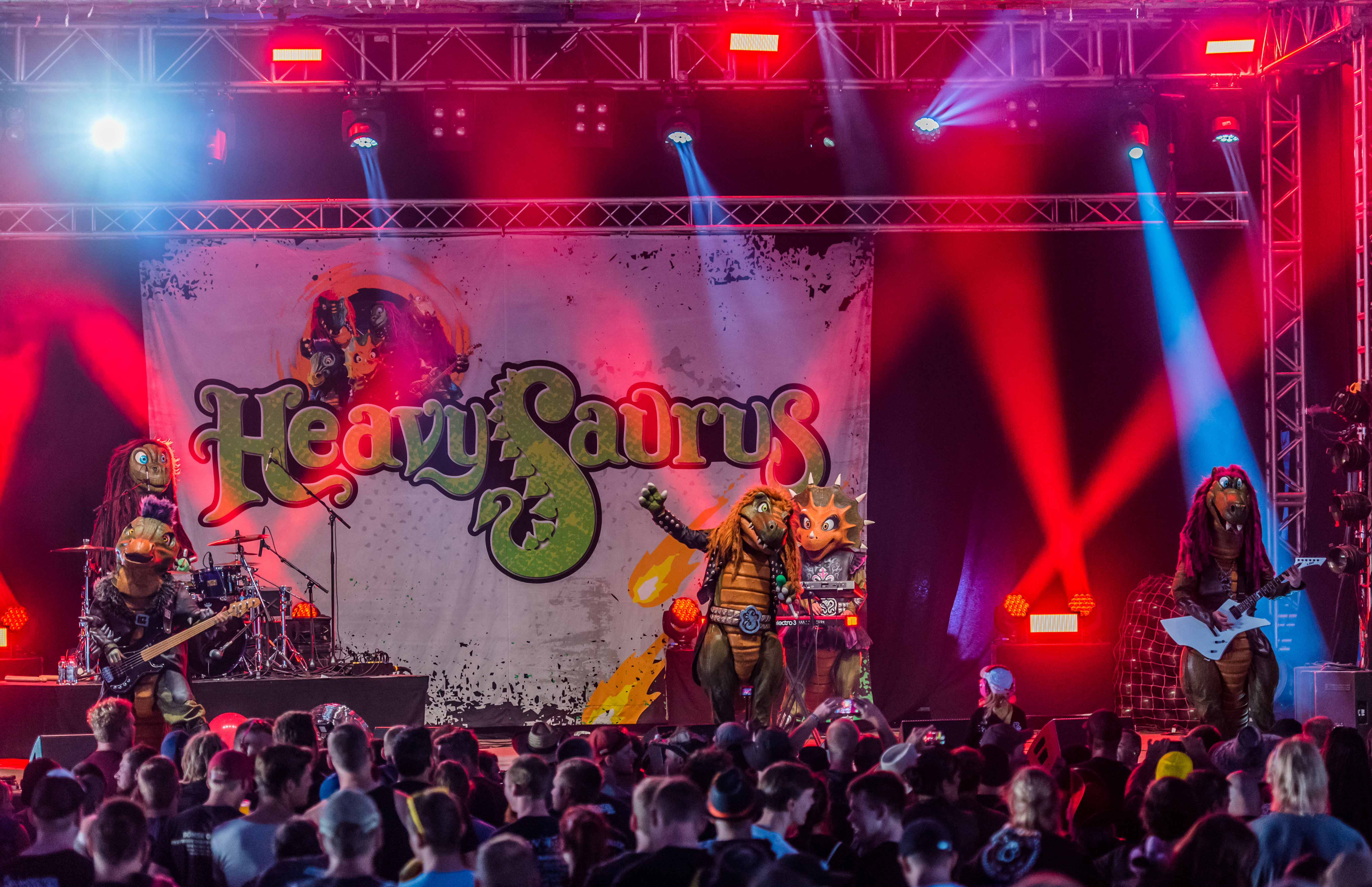 Heavysaurus playing at Werner Rennen 2018